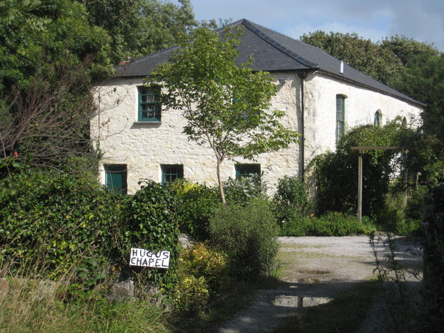 Hugus Chapel Now a private dwelling.